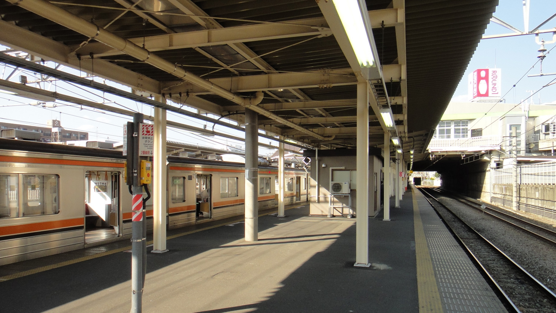 View of the Musashino Line platforms (2 & 3) at Fuchu-Hommachi Station